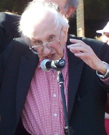 Studs Terkel at a Sicko rally, promoting health care for everyone, in 2007.